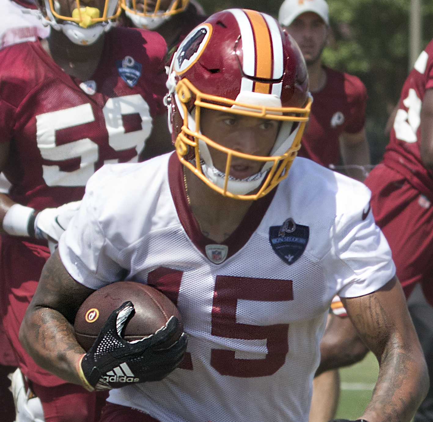 Washington Redskins wide receiver, Simmie Cobbs Jr., at training camp on August 7, 2018